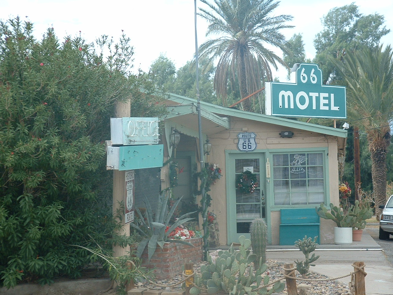 The Route 66 Motel — on historic U.S. Route 66 in the Californian Mojave Desert section. Located in the town of Needles, near the Needles Amtrak Station at the El Garces Hotel, in southeastern California. "There is nobody in the original photo of the Route 66 Motel in Needles, California, just landscaping. These are the plants I hang out with while in California. There are no celebrities in this photo, just botanicals."